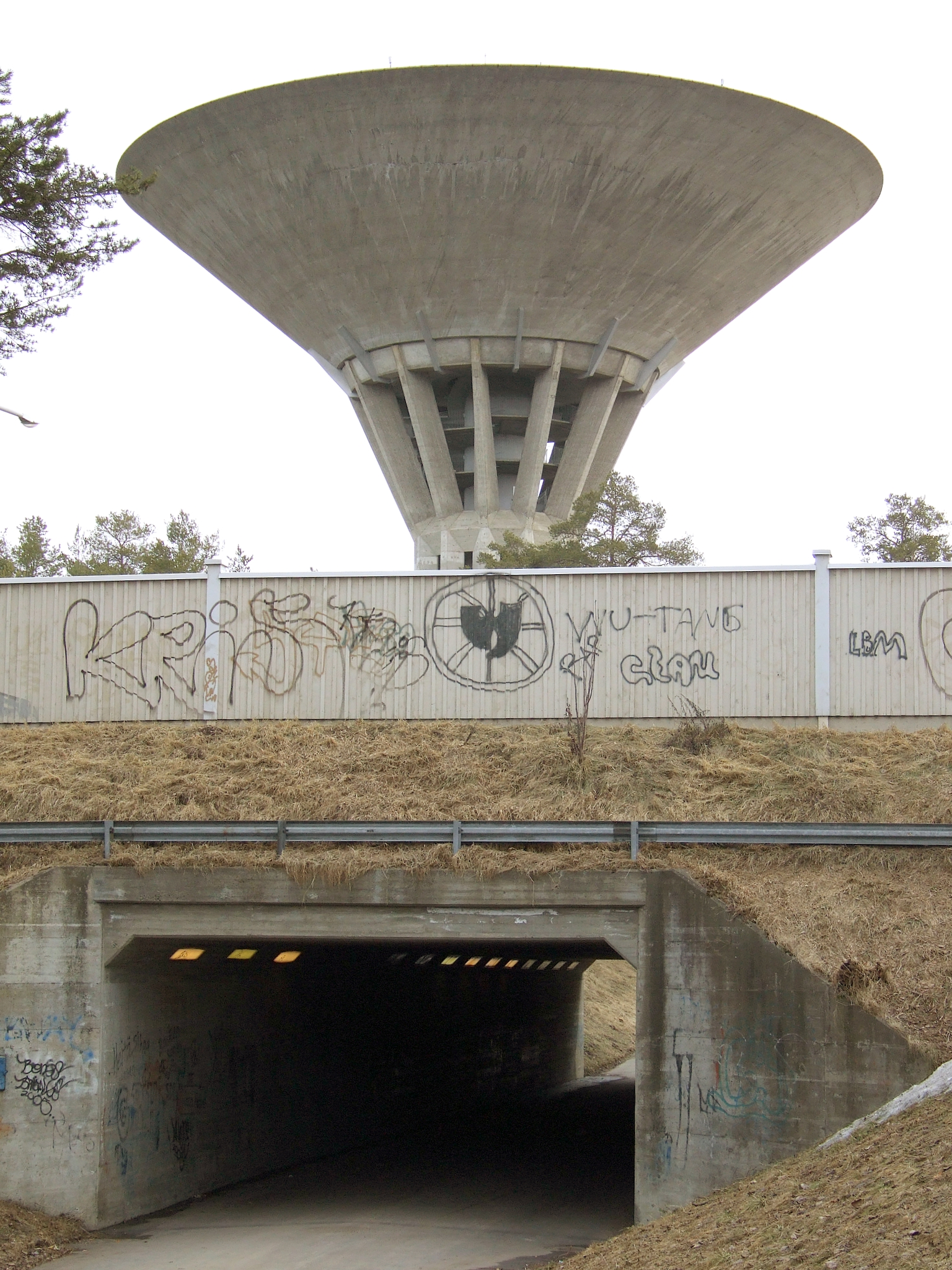 The watertower in Puolivälinkangas, Oulu, Finland, was built in 1969.